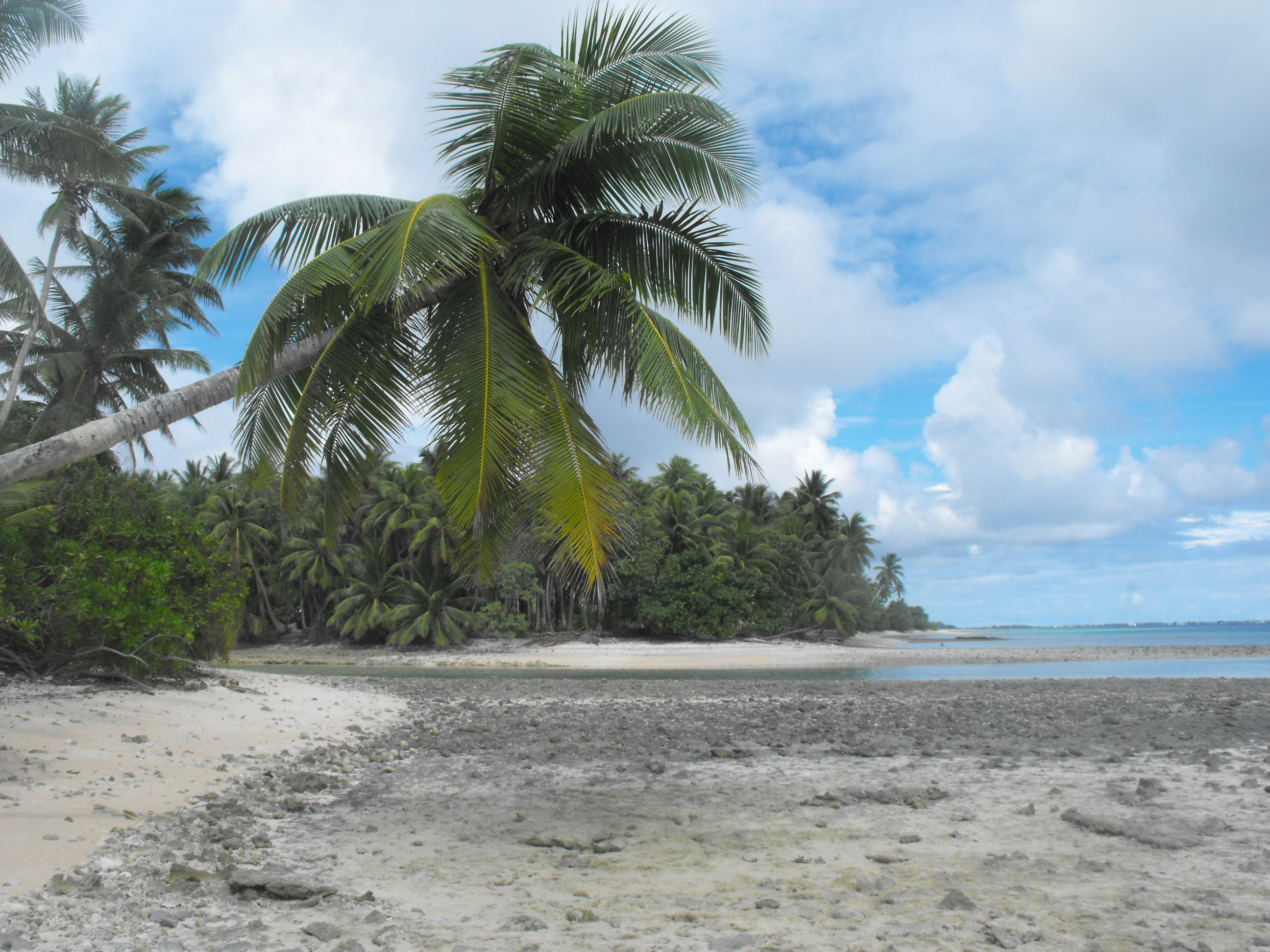 Images from a trip to the islet of Eneko in Majuro Atoll, Republic of the Marshall Islands.